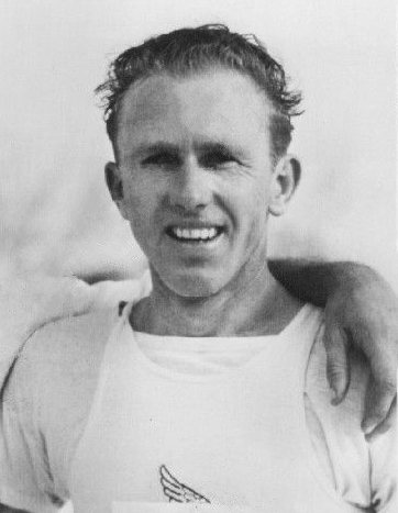 1949 AAU Cross Country FBI Agent Fred Wilt Won & Curtis Stone 2nd Press Photo